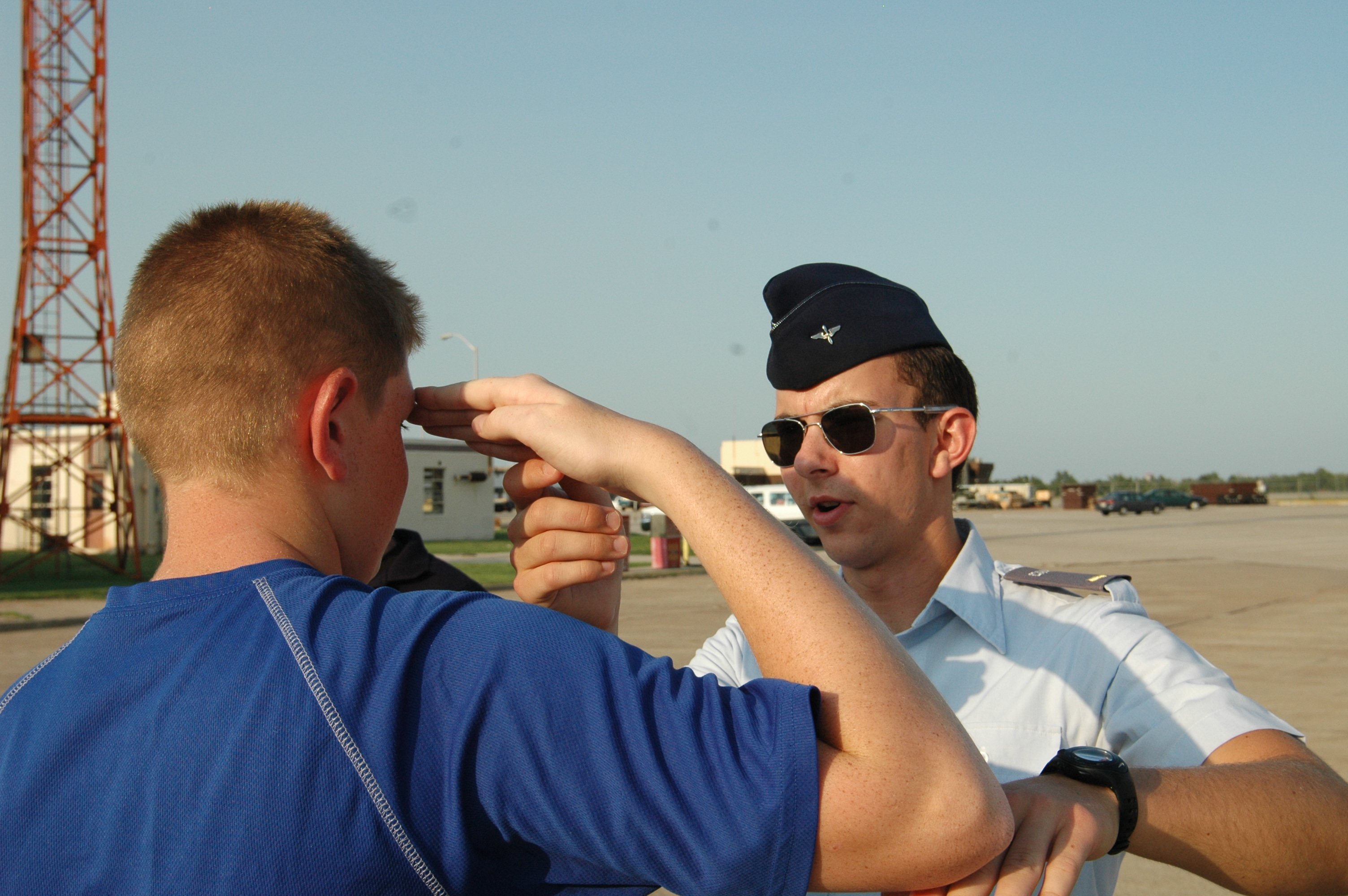 Civil Air Patrol 2nd Lt. Ryan Jones gives pointers to a new CAP recruit on the proper way to salute during a formation at their weekly meeting in Bldg. 240 here. During the meeting the cadets cover current events and brush up on aerospace education topics. (Air Force photo by Howdy Stout)